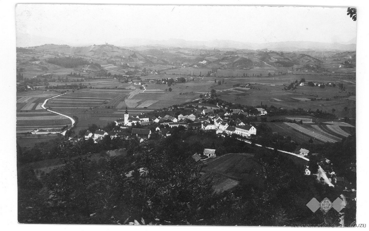 Postcard of Bistrica ob Sotli